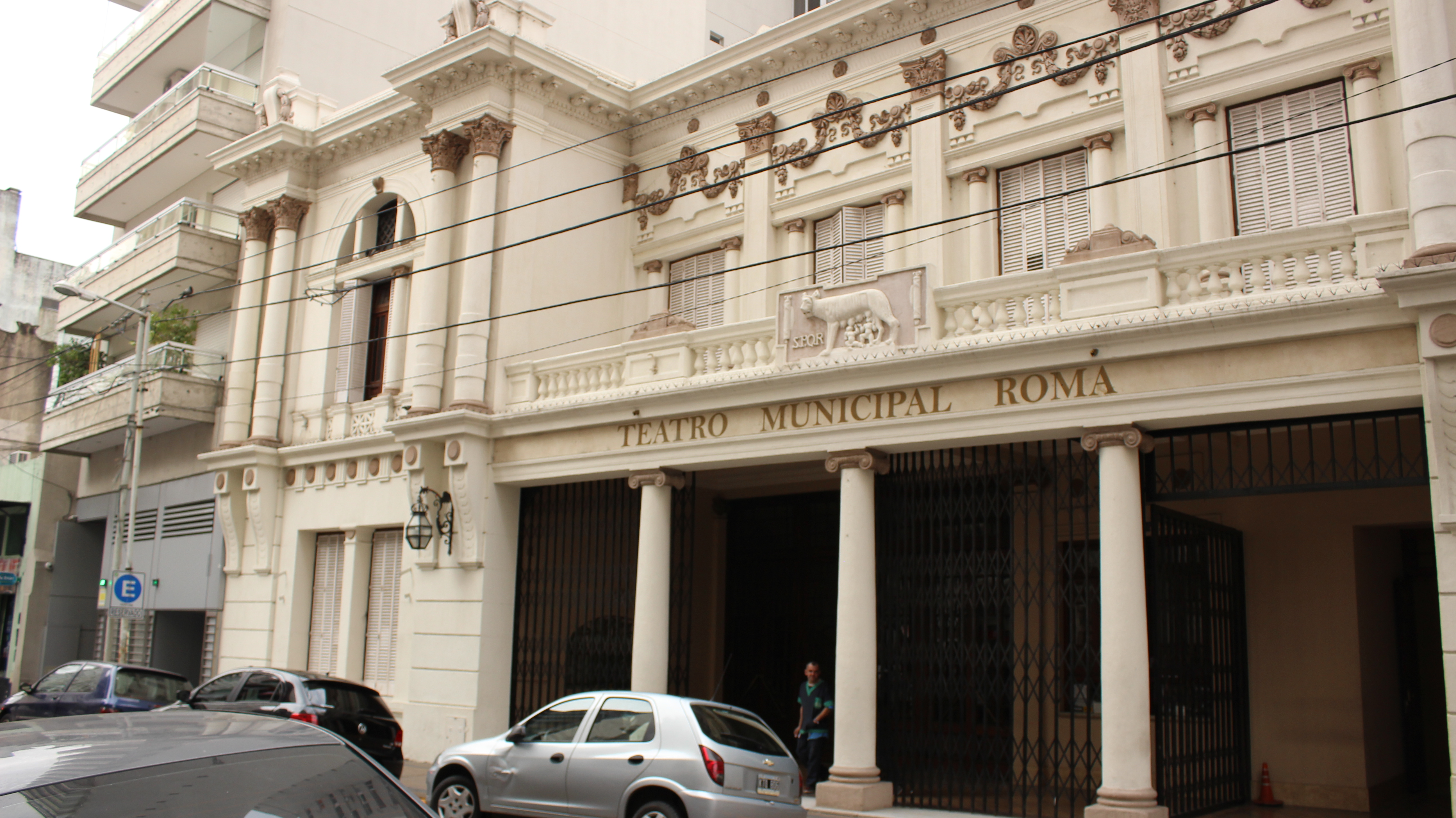 Frente del teatro Roma de Avellaneda